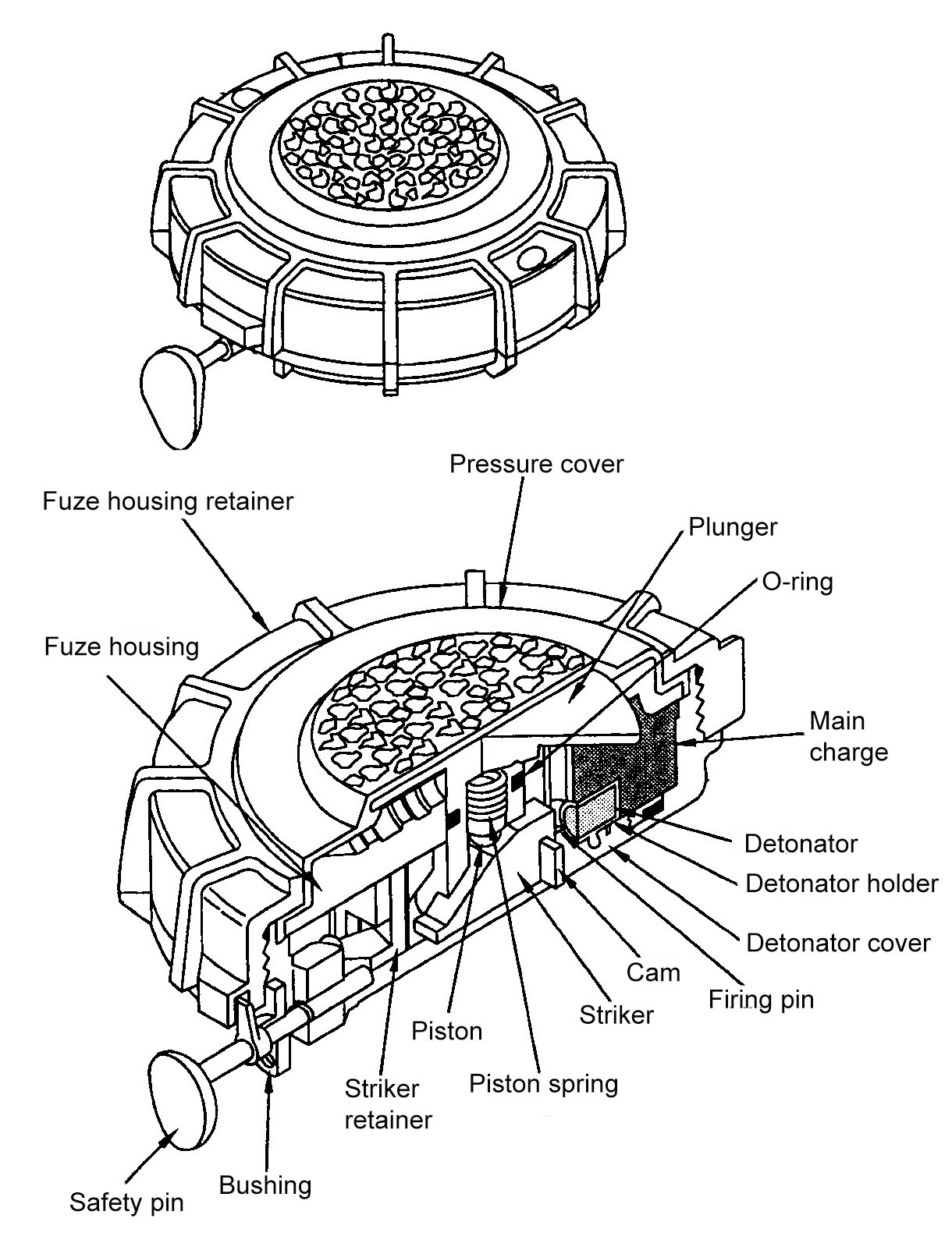 A Diagram of an Italian VS-MK2 mine based on diagrams from ORDATA